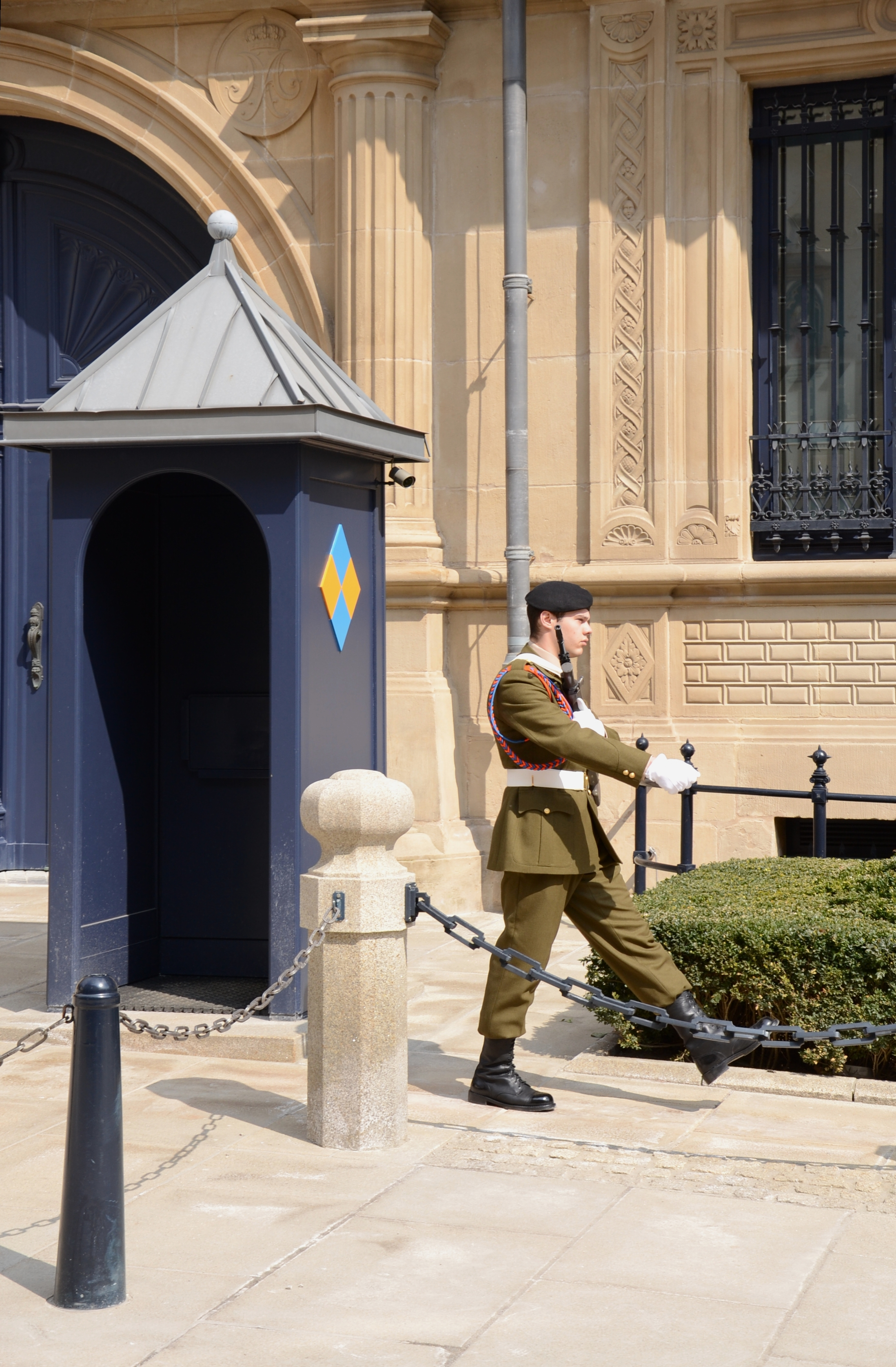 Guard Grand Ducal Palace Luxembourg